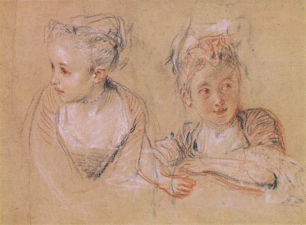 trois crayons drawing of young girl